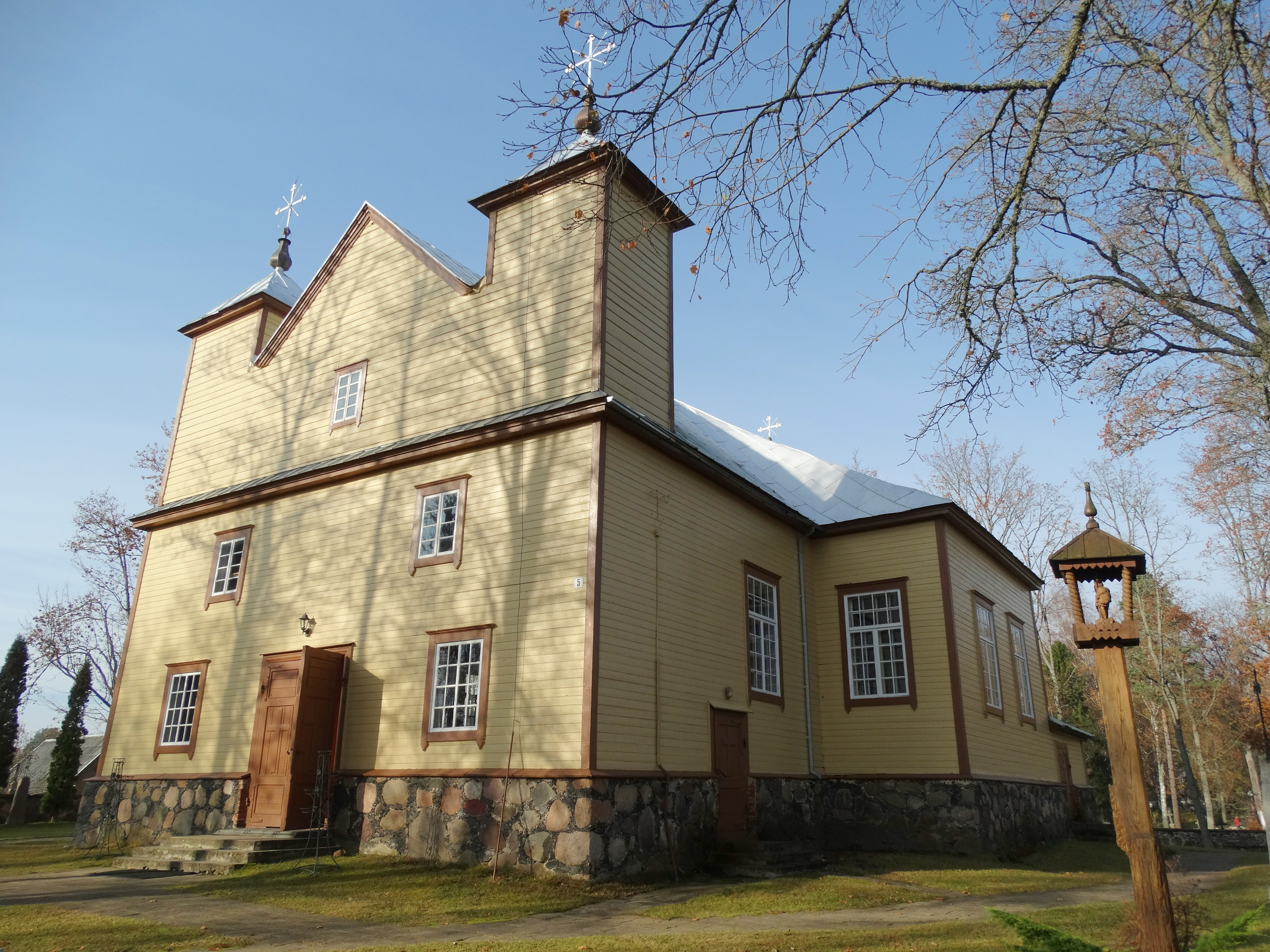 Saint John the Baptist church, Vajasiškis, Zarasai district, Lithuania